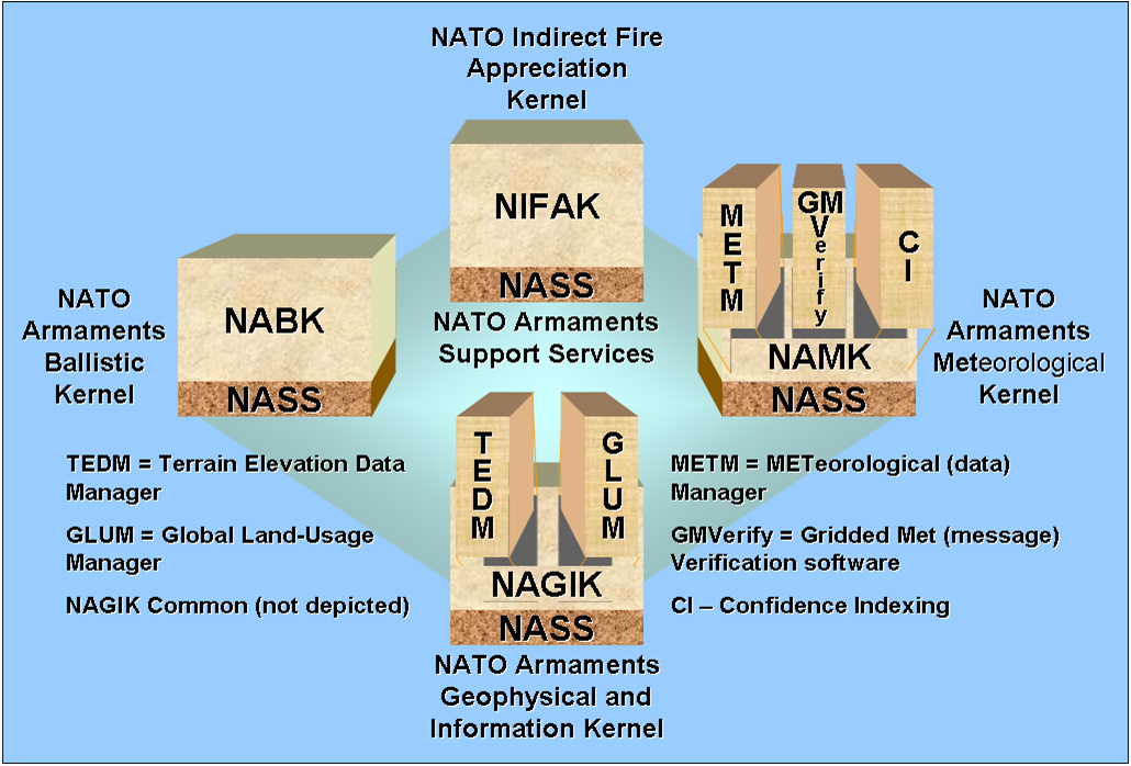 SubGroup2 Shareable (Fire Control) Software Suite (S4) Architecture